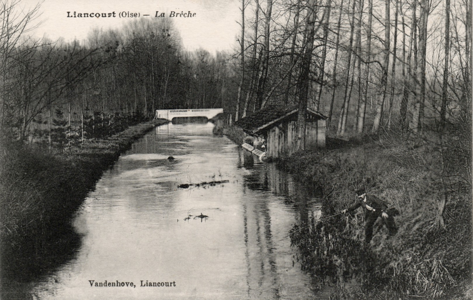 River "La Breche" at Liancourt (Oise - France) - vintage postcard - personal collection